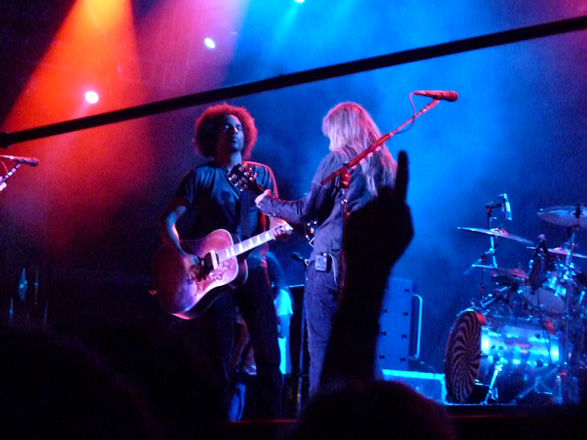 Alice in Chains live at Bilbao, 2010